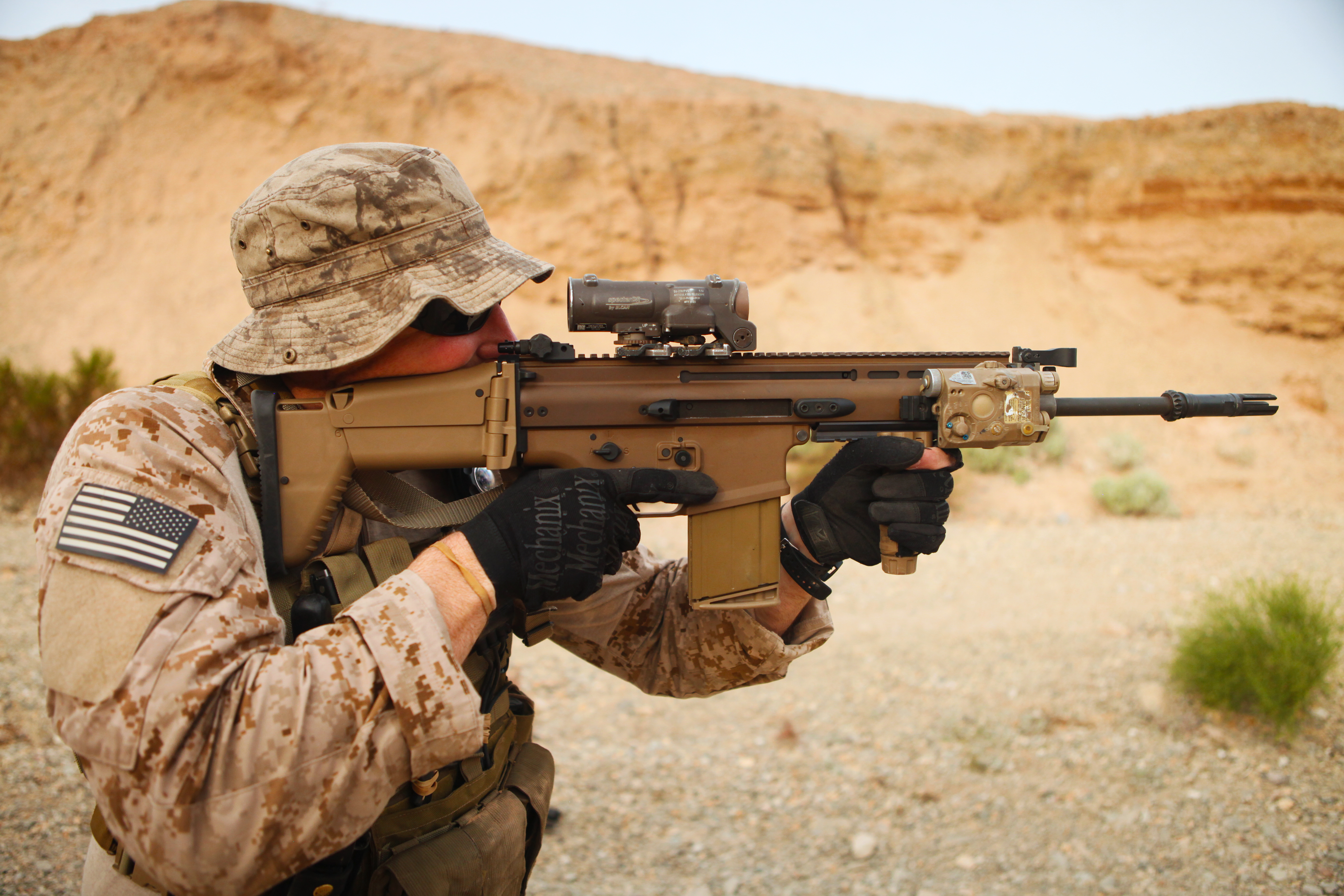 U.S. Navy SEAL with a SCAR-H rifle